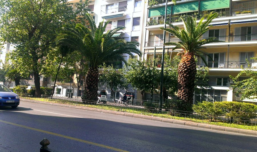 pagrati